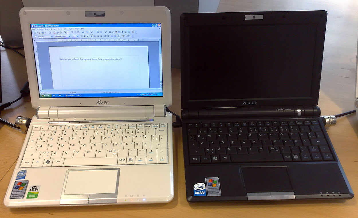 Asus Eee PC 901 (white) next to Eee PC 900 (black)